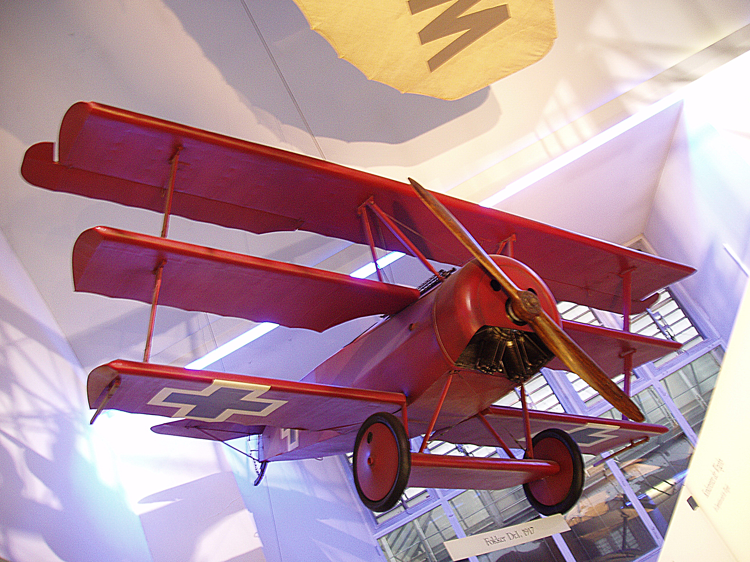 A replica of a Fokker Dr.I triplane.